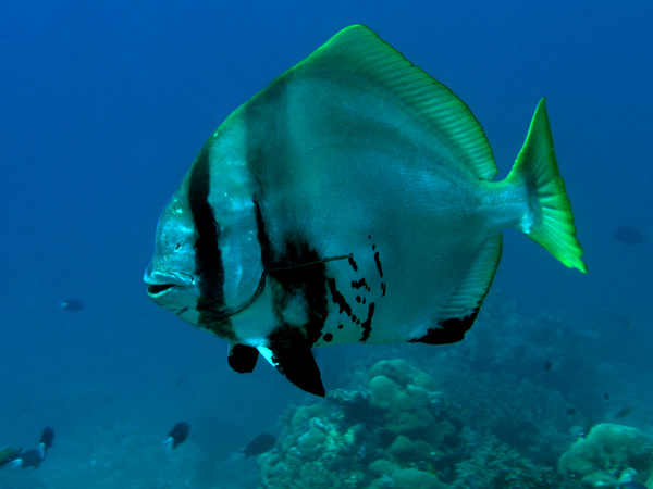 Batfish (Platax pinnatus) in Komodo National Park